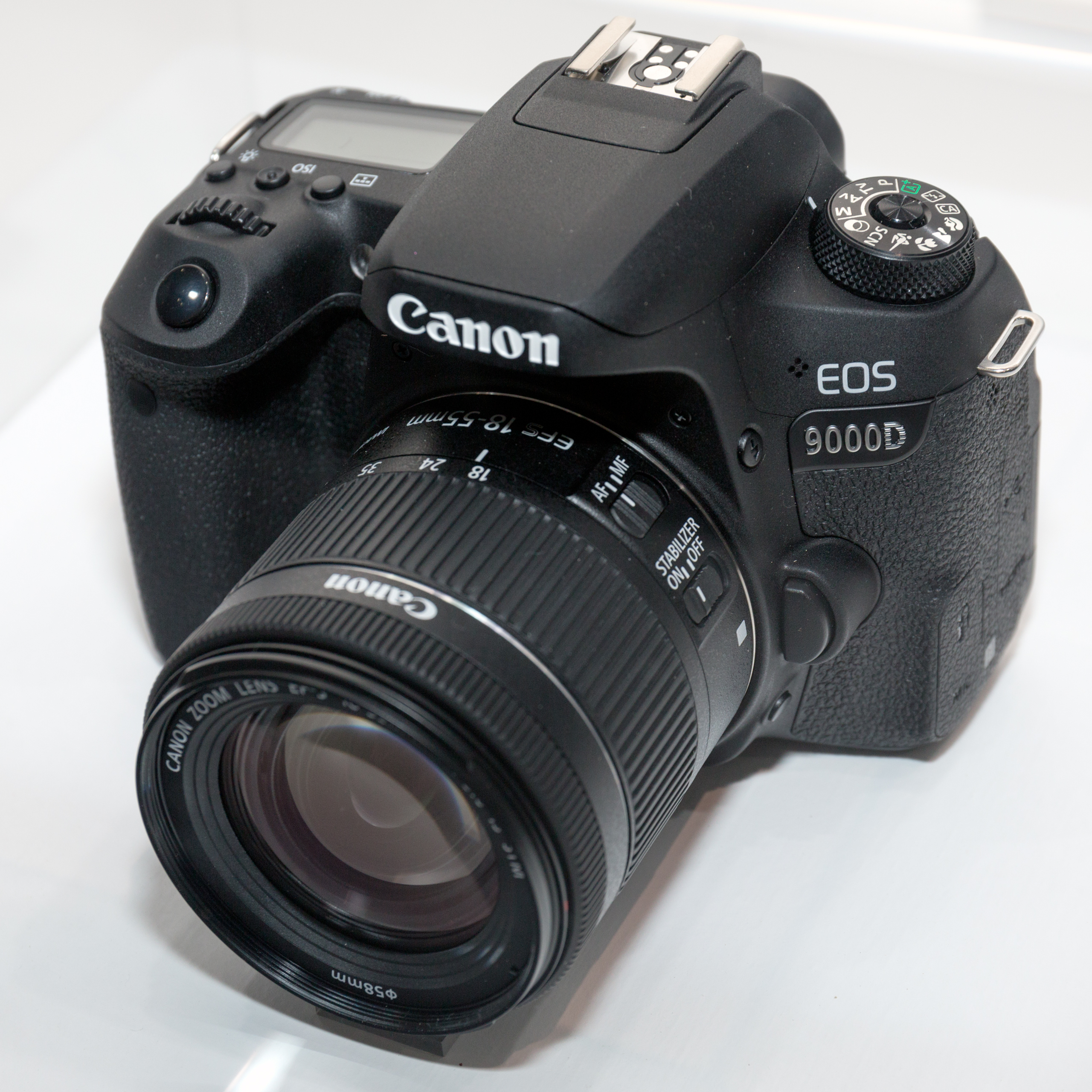 CP+ 2017: 2017 Canon EOS 9000D